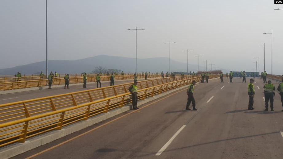 Journalists of the Voice of America located in the Tienditas Bridge report that the border crossing from Colombia to Venezuela remains closed, but the expectations for this day are great.